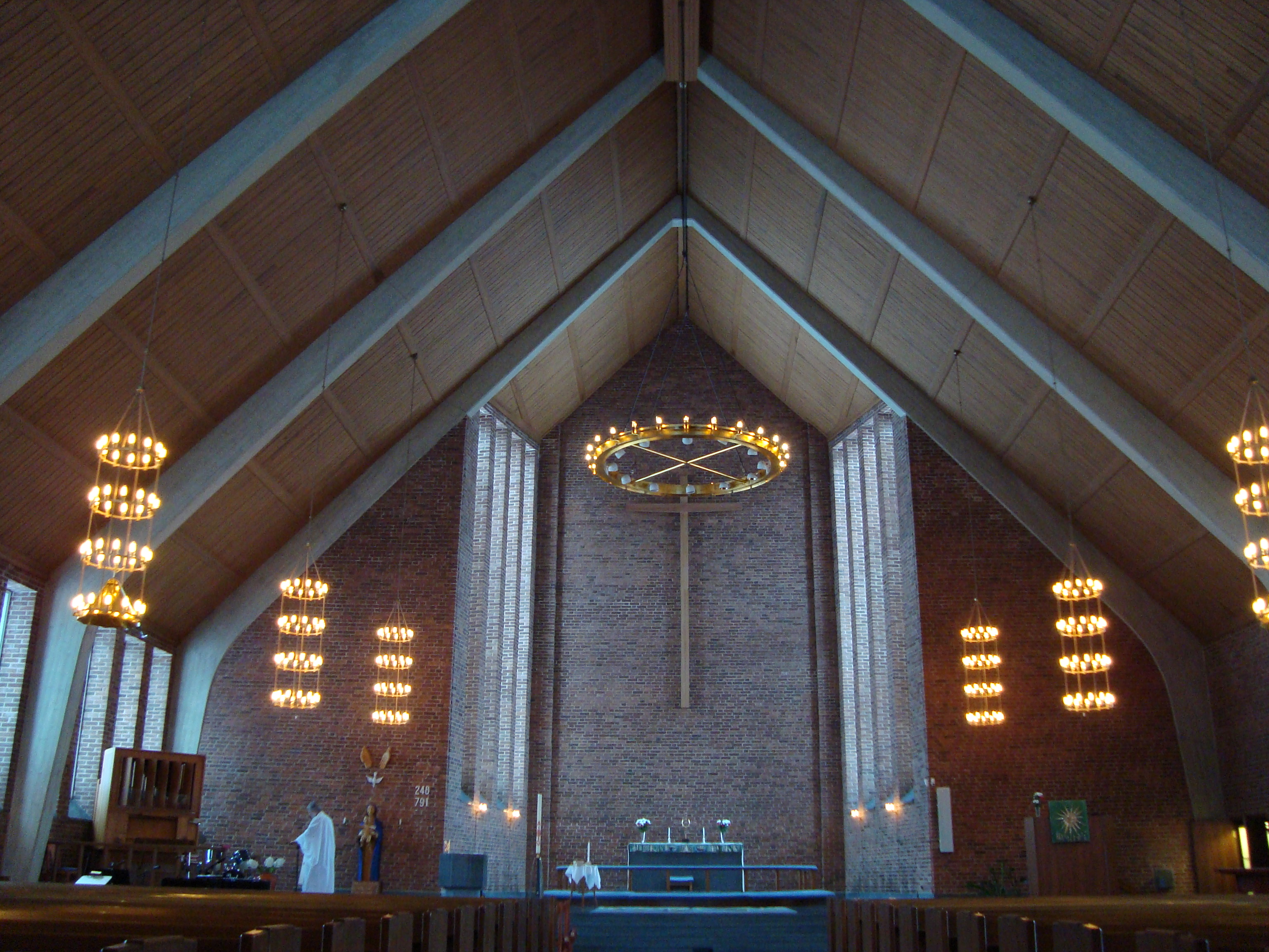 Hofors Church, Sweden